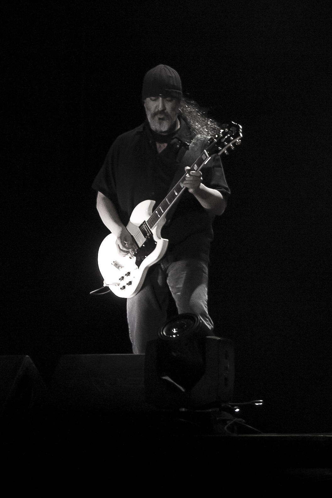 Kim Thayil live at 2014